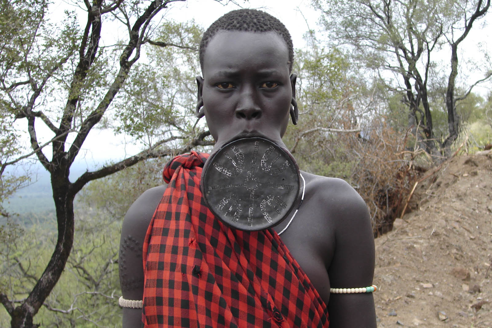 Murzi woman (Ethiopia)